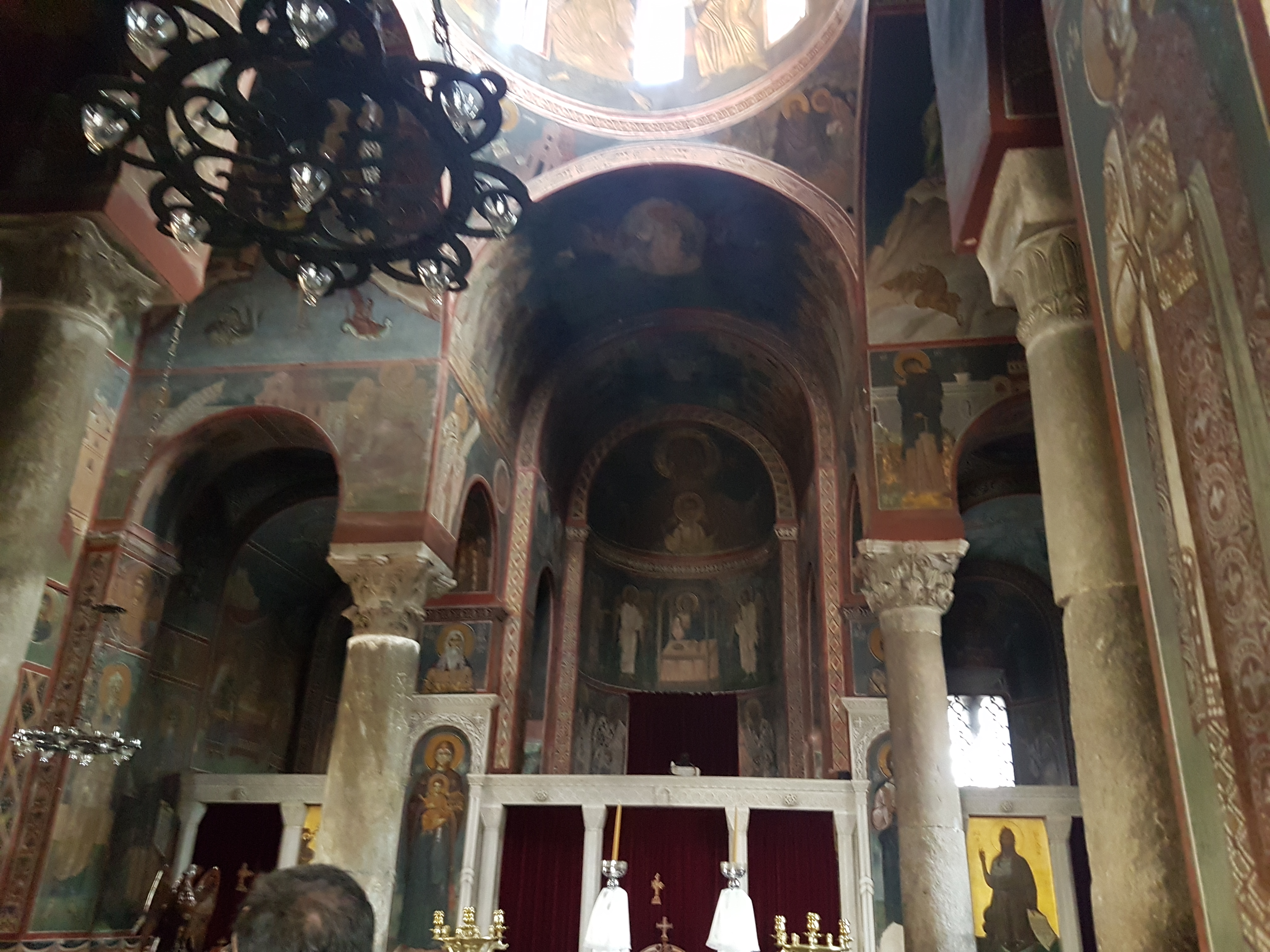 Kapnikarea interior